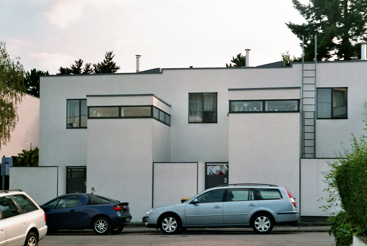 Stuttgart, Weissenhofsiedlung, gallery house by J.J.P. Oud. 1927, international style.